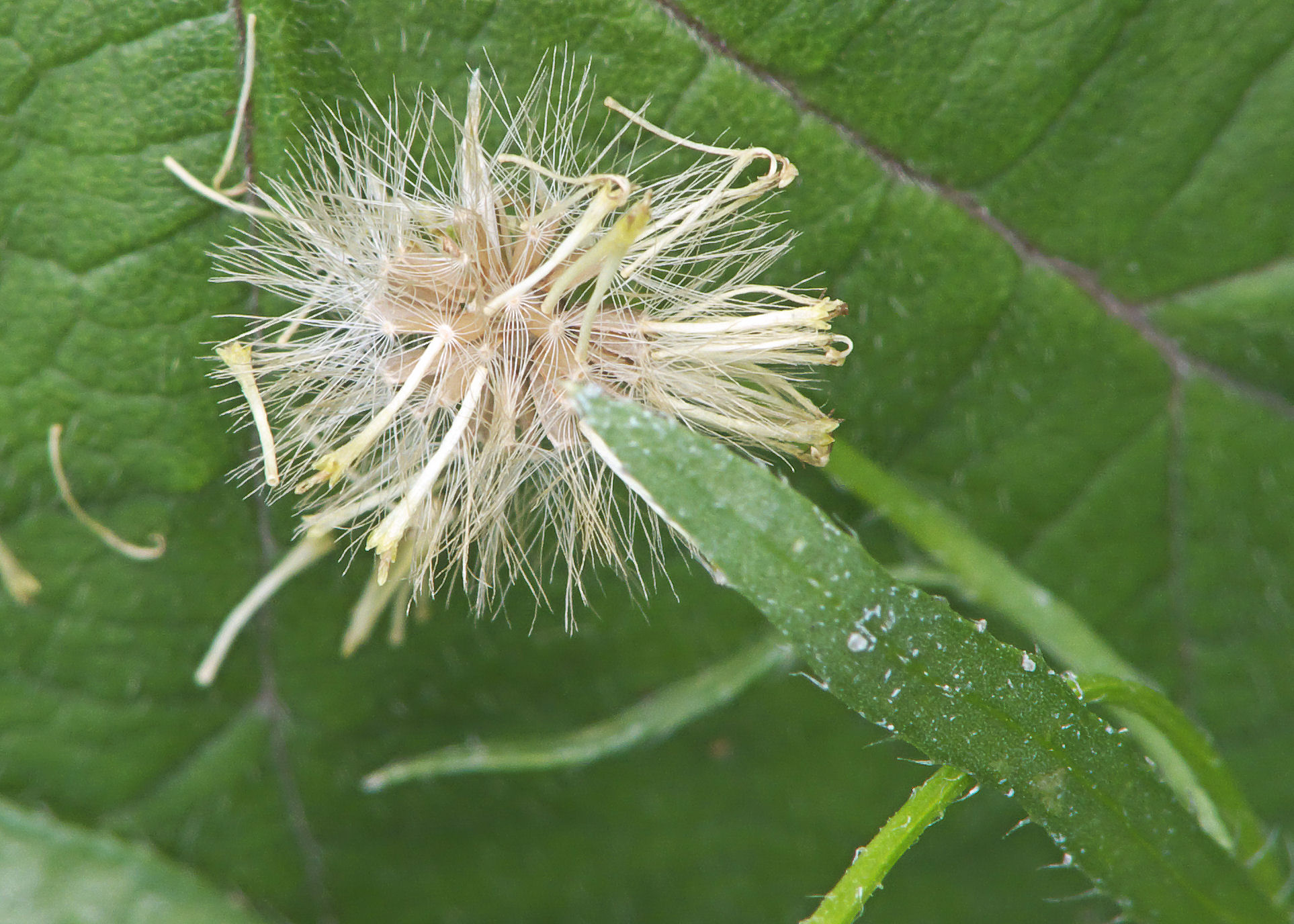 Conyza canadensis seeds